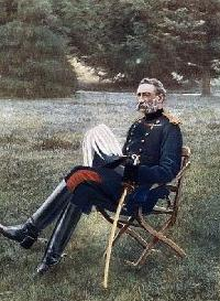 "Lieutenant-General F.Clery. (Commanding Second Division - South Africa)", from an original portrait, produced by Knight of London, 1900.